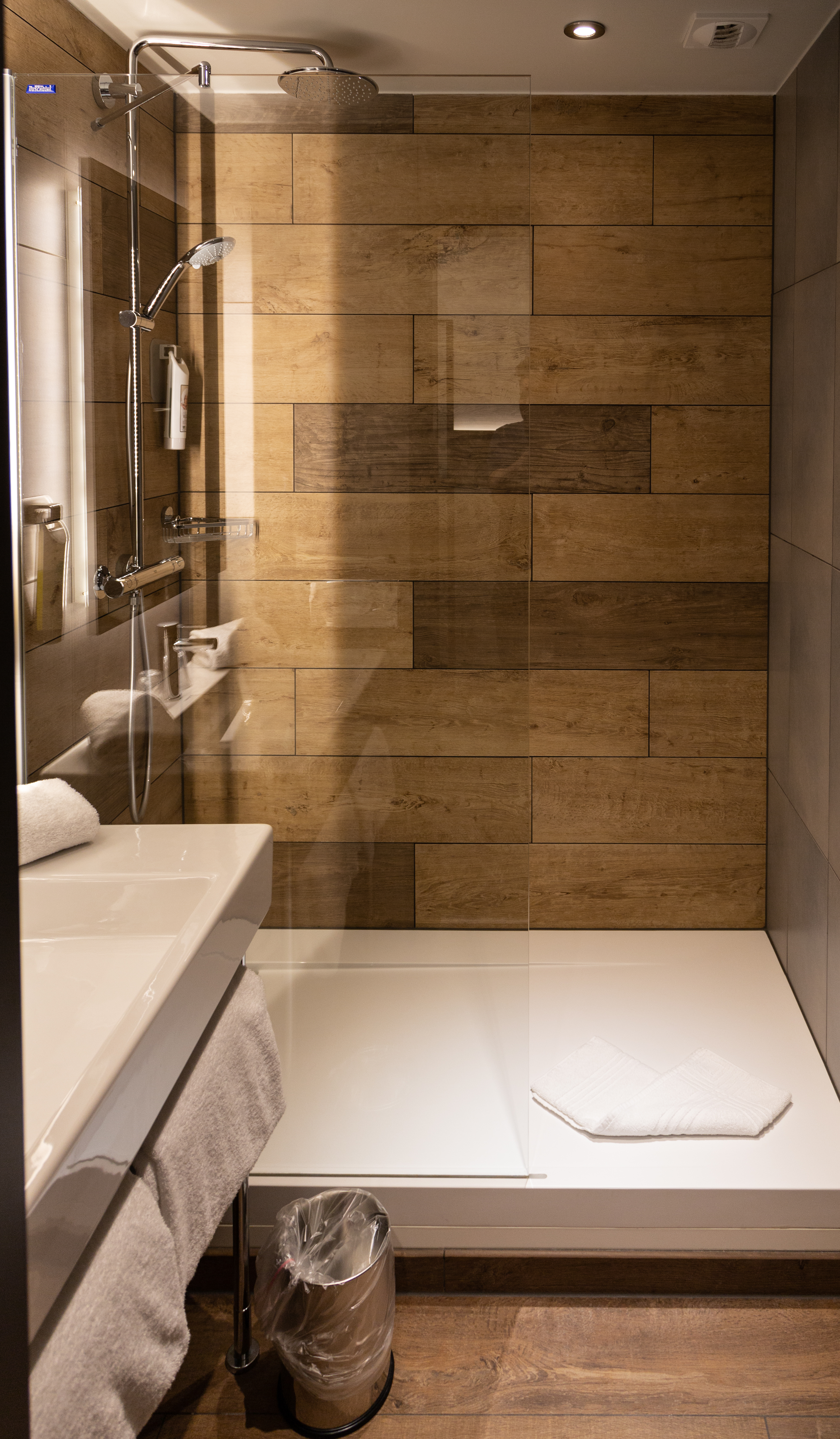 Ibis Styles Palexpo, Switzerland